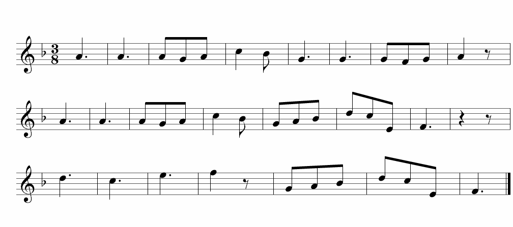 Melody of the German traditional song "Du, du liegst mir im Herzen"